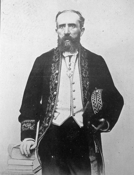 Mariano Catalina